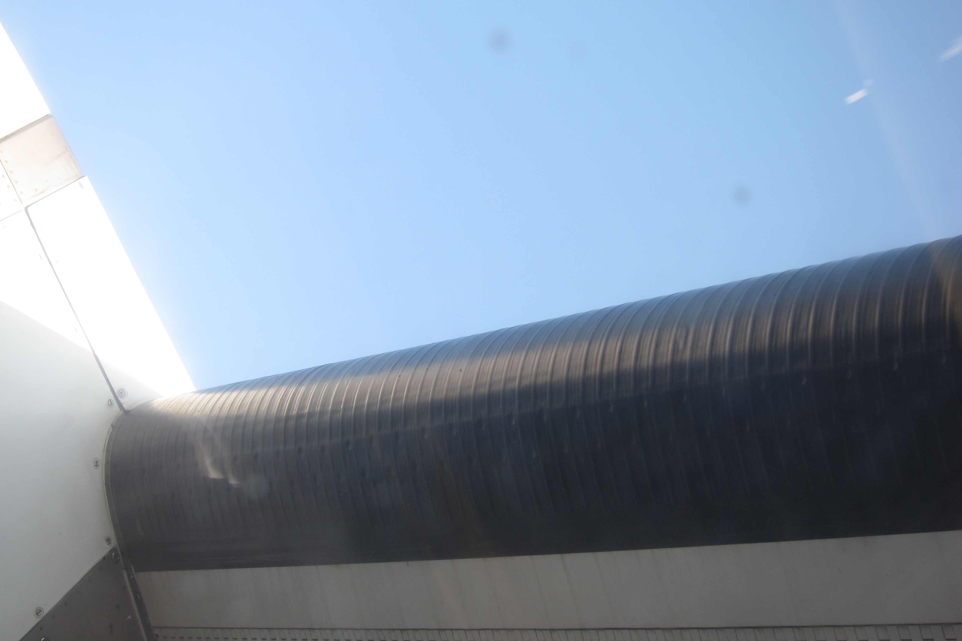 A view of the inner right leading edge of an ATR 72-200. The grooves that can be seen on the rubber cover are inflatable boots used for anti-icing.